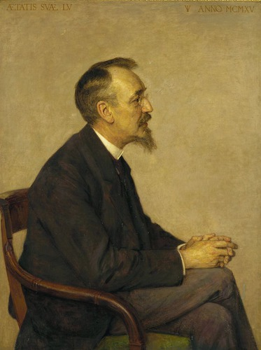 Painting of Anton Derkinderen by Jan Veth. Location: Dordrechts Museum, the Netherlands